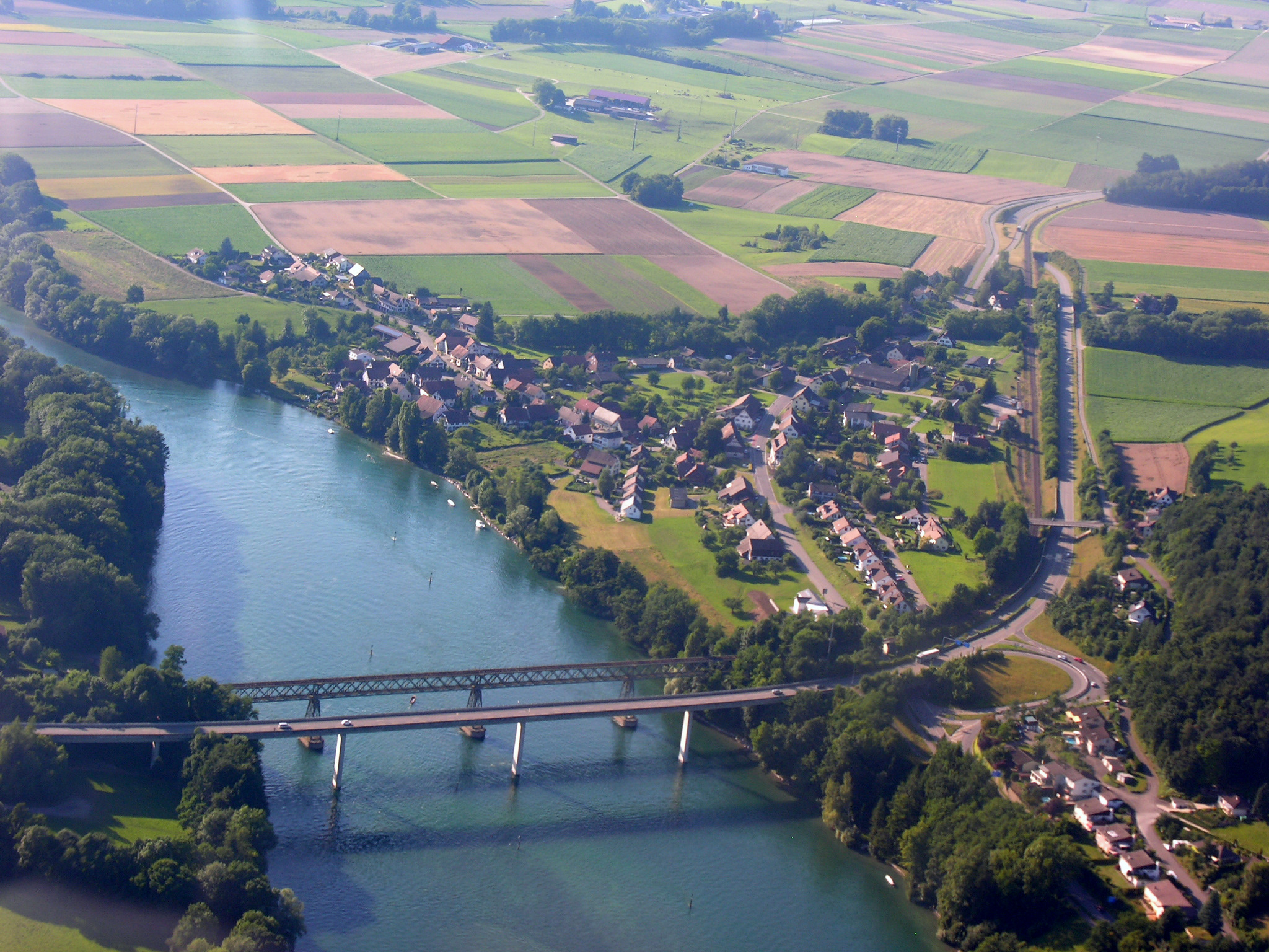 Aerial View of Hemishofen with the 2 Bridges across the Rhine